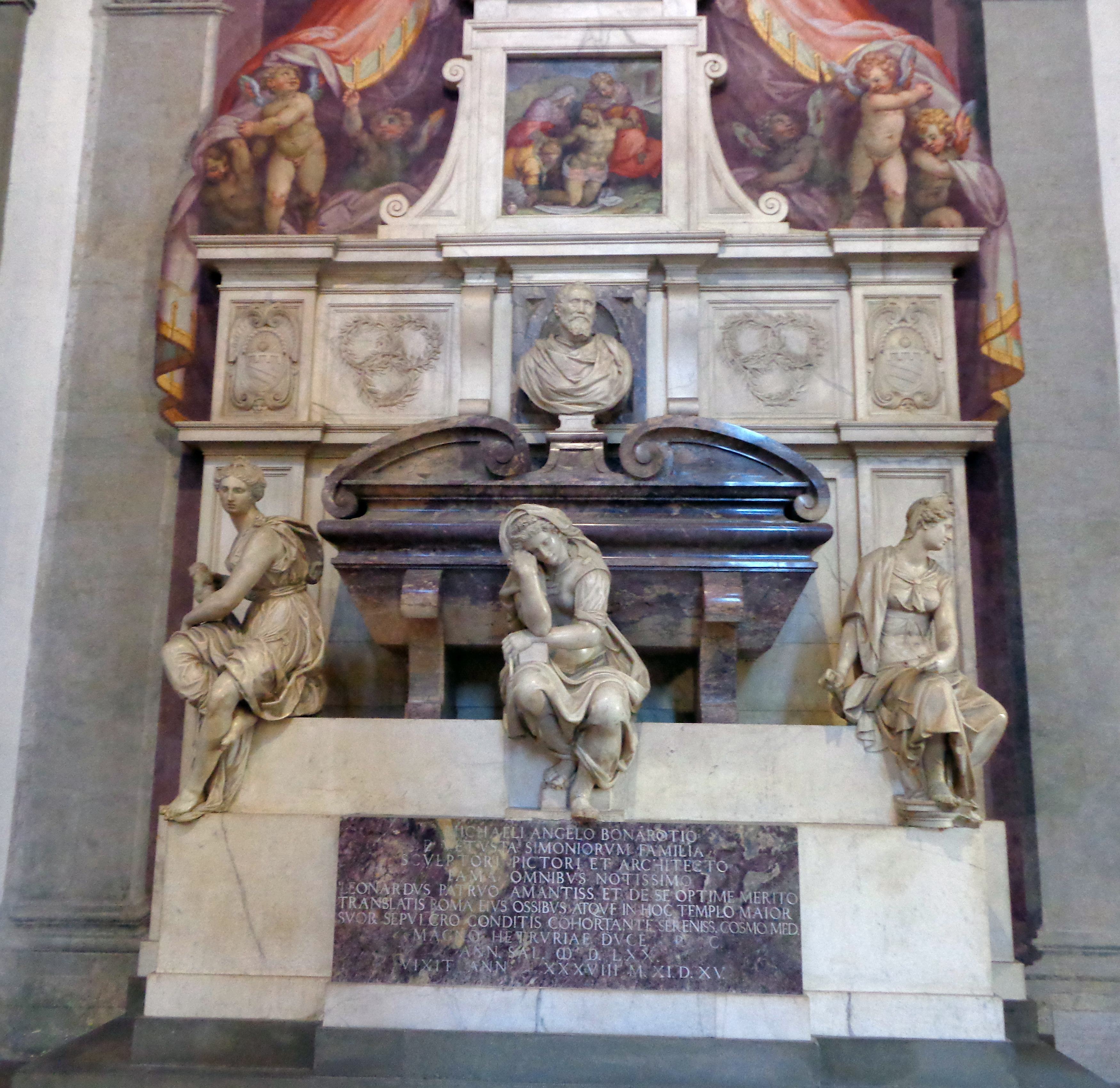 The tomb of Michelangelo Buonarroti